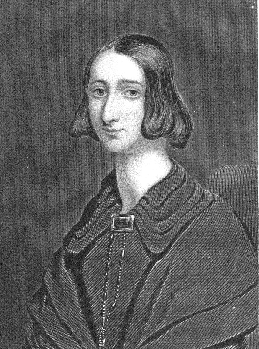 Portrait of English writer Grace Aguilar (1816-1847)